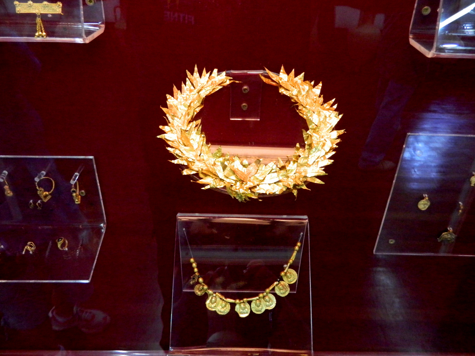 The Lamias gold - details